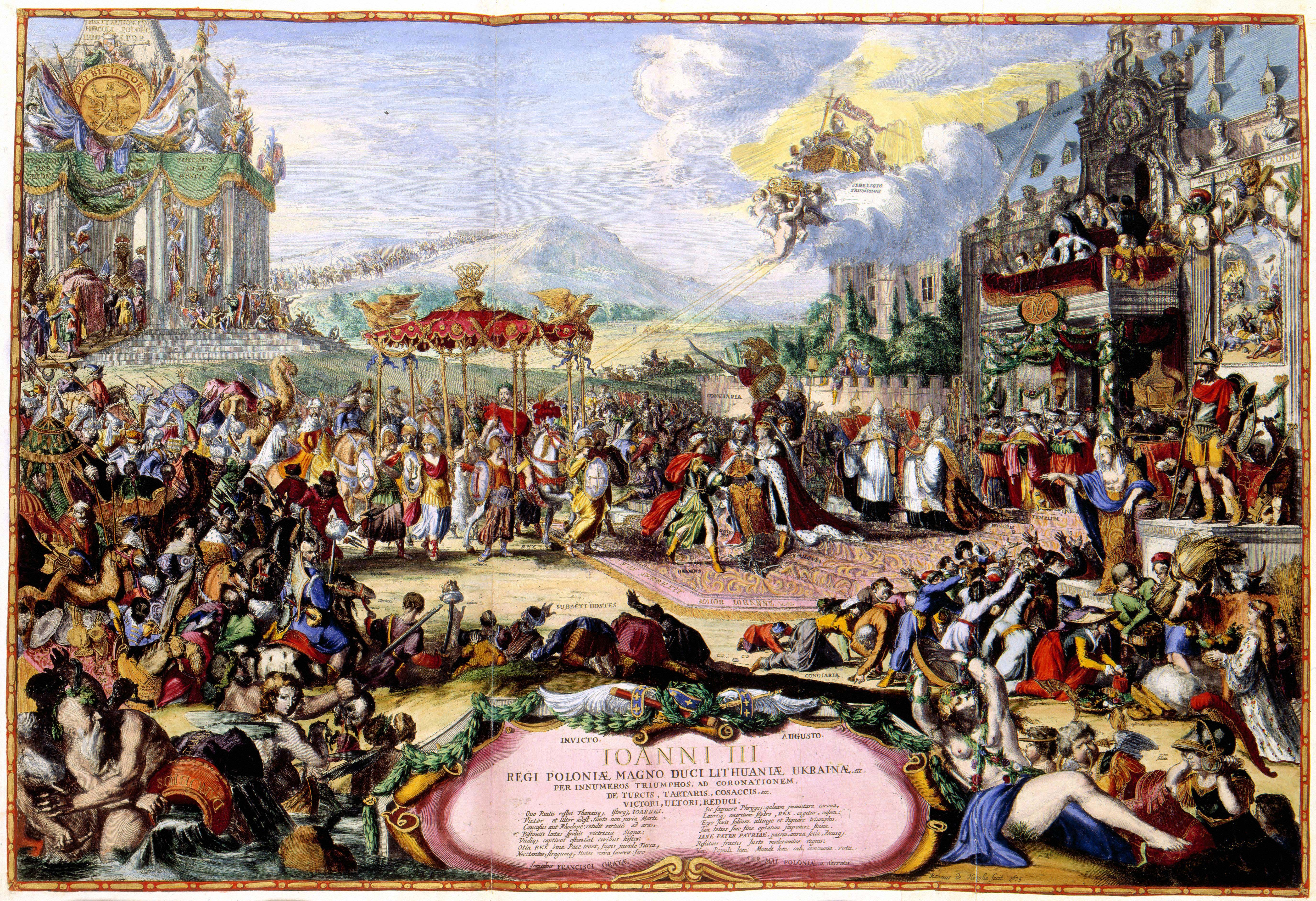 Between 1671 and 1677 a war was waged between Poland and the Turkish Empire. The war was about the Ukraine that as a result of a former war was divided between Poland and Russia. The kosaks in the Ukraine refused to recognize the Polish authority. They revolted and searched for help with the Turks. The Polish king John_III_Sobieski was able to conquer the large Turkish army in the Battle of Lwow in 1675 and relieve the Ukraine. Romeyn de Hooghe (1645-1708) depicts in this print the triumphant entry of John_III_Sobieski in city of Krakow.